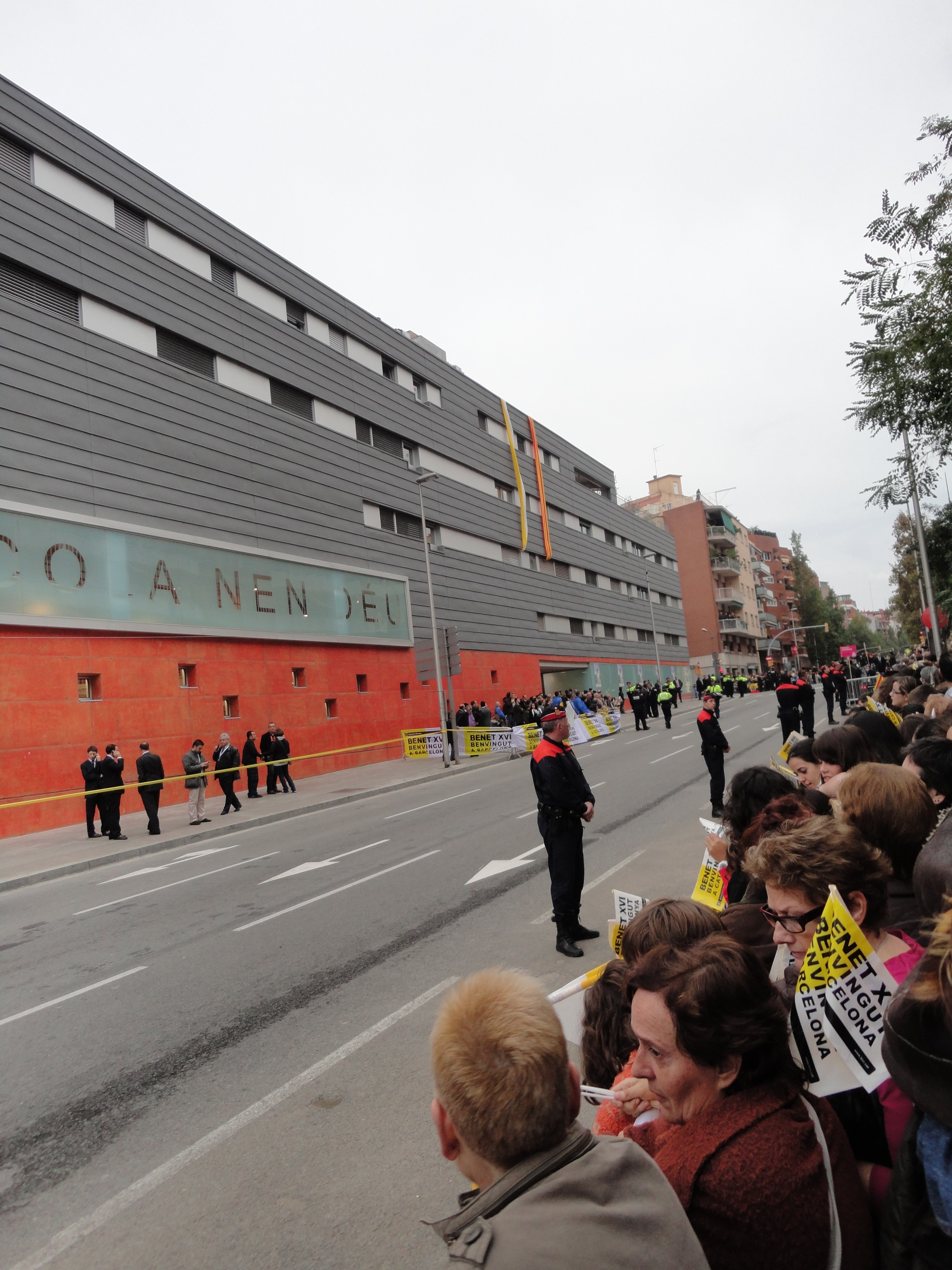 Pope Benedictus XVI in Barcelona